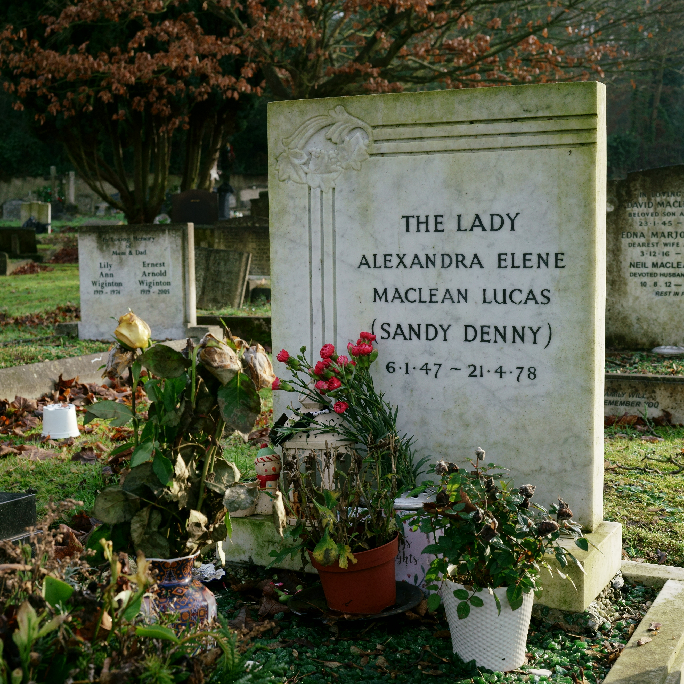 Sandy Denny (6.1.1947 - 21.4.1978). I did not meet Sandy, but attended one of her concerts, in November 1977, on what was to be her final tour.